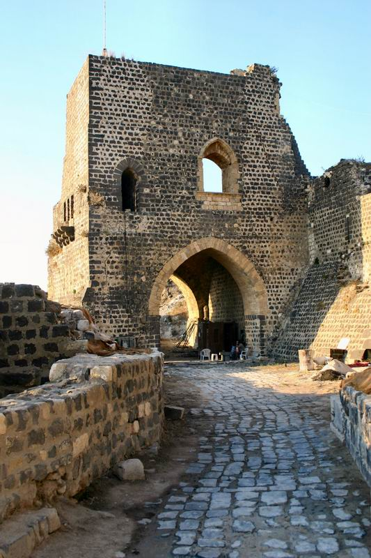 Margat, eigenes Foto von 2004, public domain